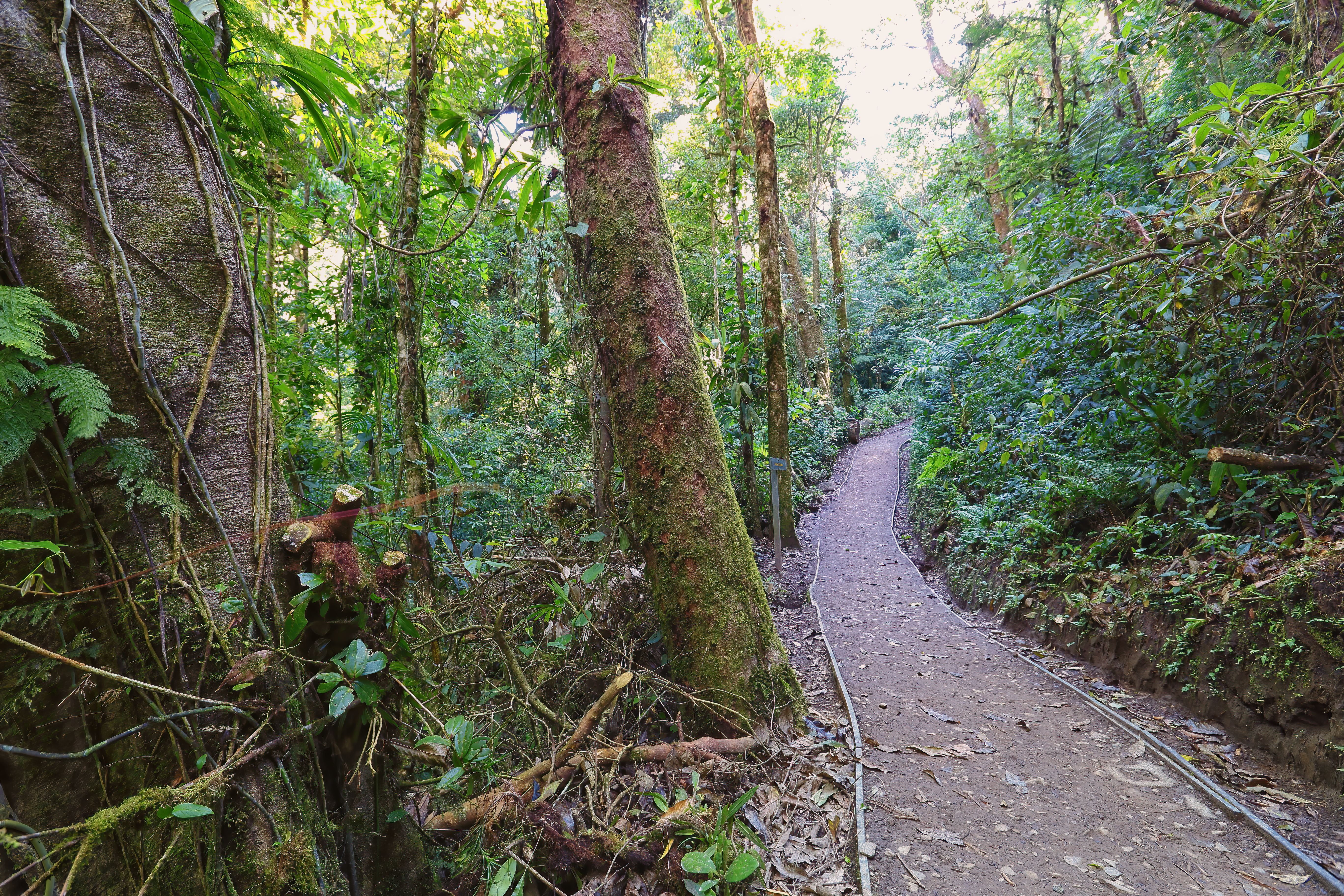 Monteverde Cloud Forest Reserve, Monteverde, Costa Rica